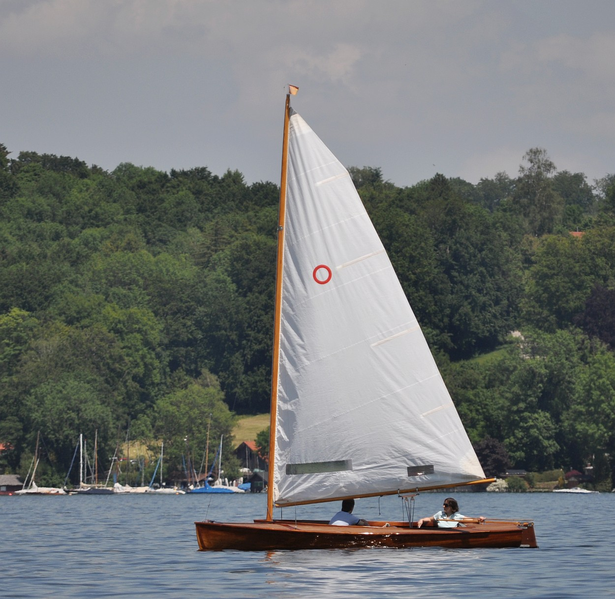 O-Jolle on Starnberg Lake